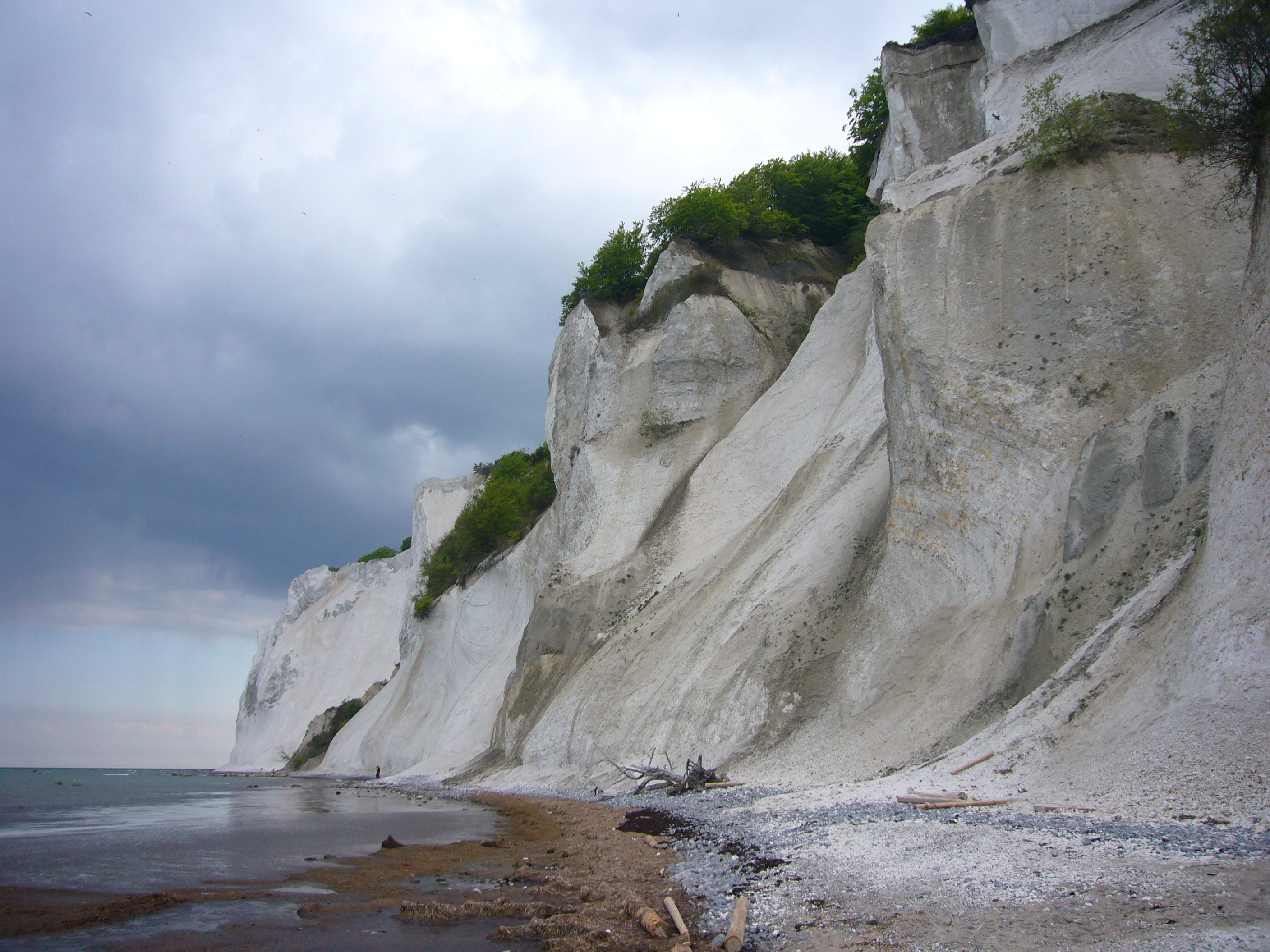 Møns Klint, the white chalk cliffs on the Danish island of Møn.